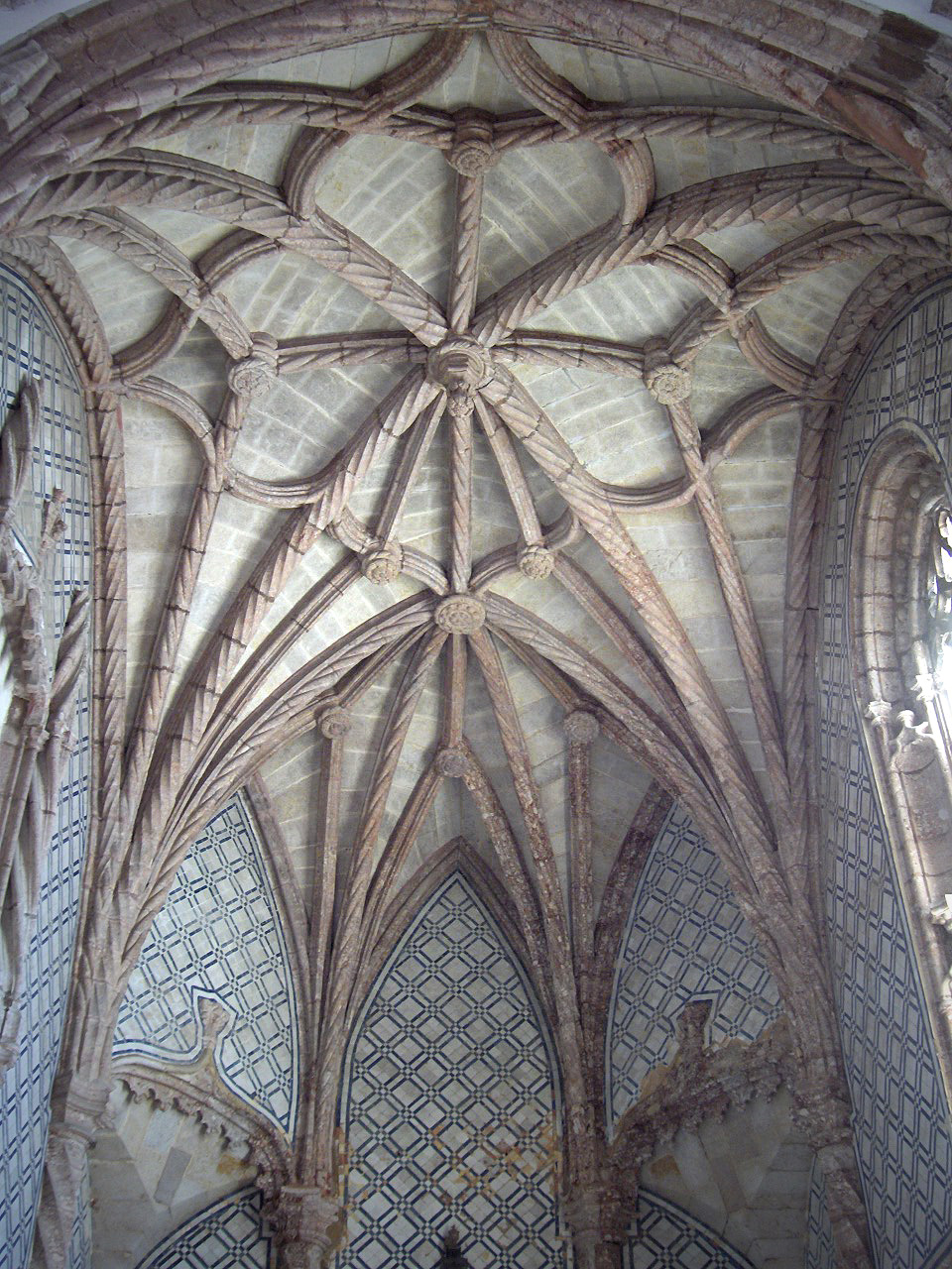 Ribbed vault of the choir (in manueline style) of the Jesus Church (Igrejia de Jesus); Setúbal, Portugal.